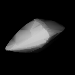 3D convex shape model of 1693 Hertzsprung, computed using light curve inversion techniques. J. Hanuš, J. Ďurech, M. Brož, B. D. Warner (June 2011). "A study of asteroid pole-latitude distribution based on an extended set of shape models derived by the lightcurve inversion method". Astronomy and Astrophysics 530: A134. ISSN 0004-6361. arXiv